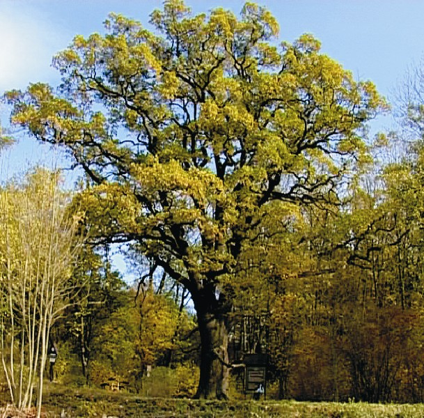 Oak Skřivany